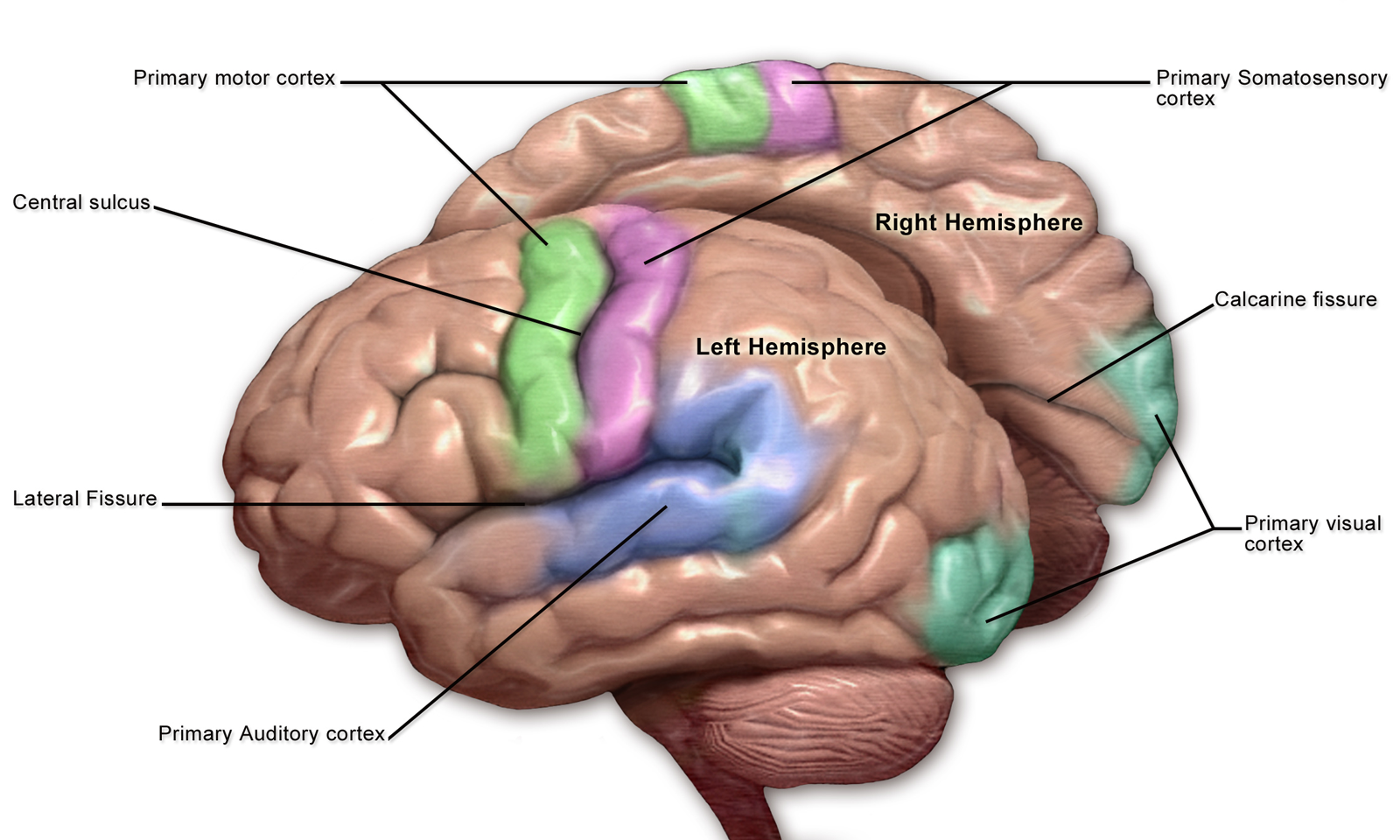 Motor and Sensory Regions of the Cerebral Cortex. This image was donated by Blausen Medical. Please visit our website to see more medical illustrations and animations.